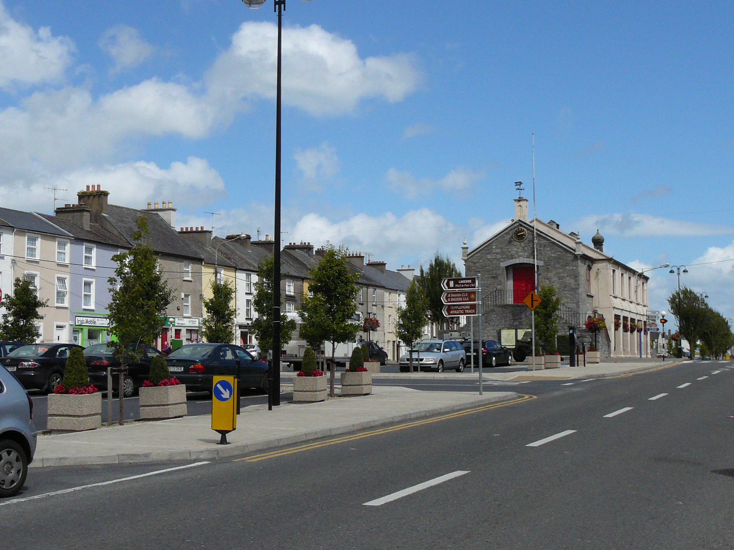 View of Templemore Town Hall and Main Street, co Tipperary, facing towards the North with the residential side of the Main Street seen to the west. Image taken from the shopping side of the Main Street.